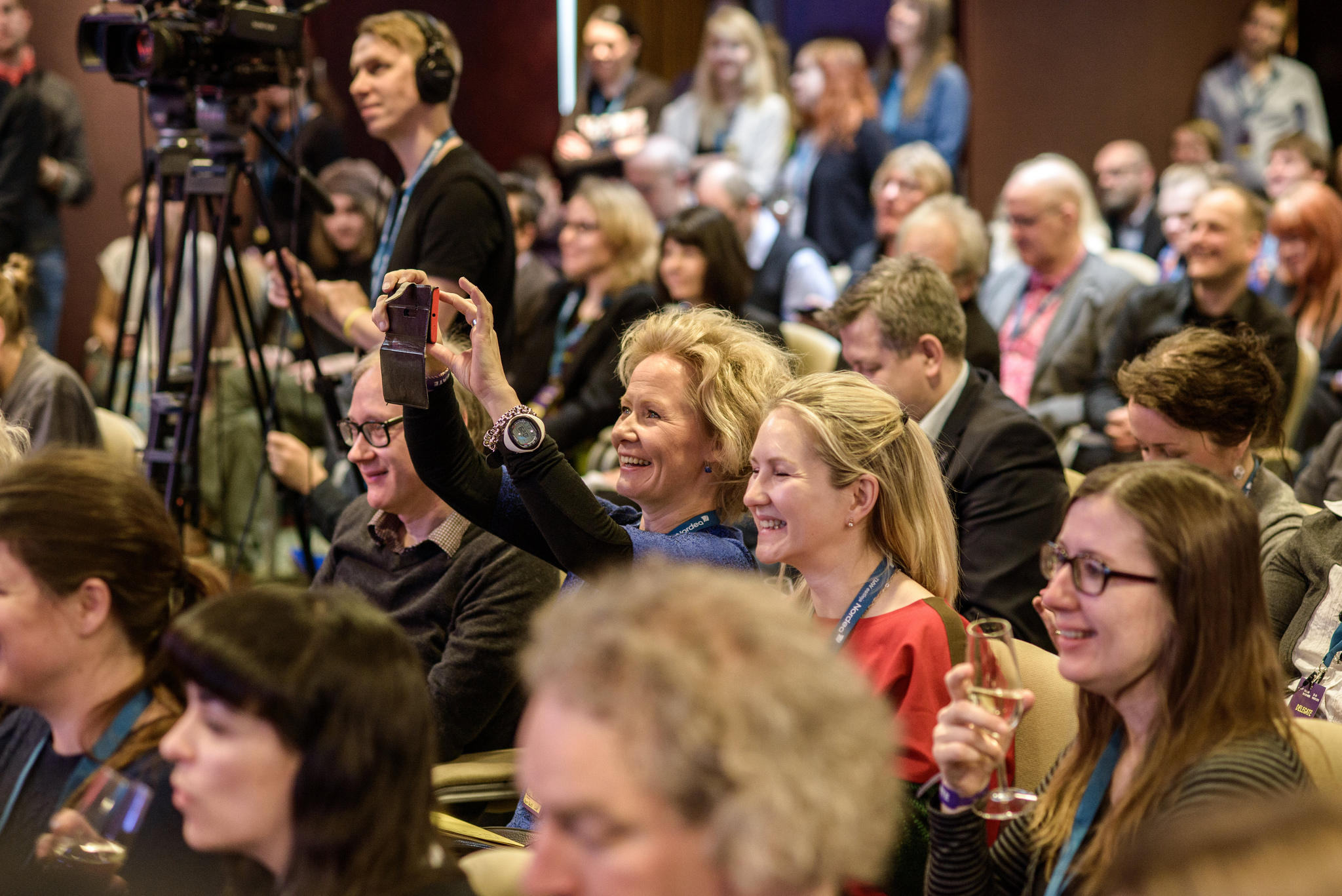 TMW konverentsi avamine 2015